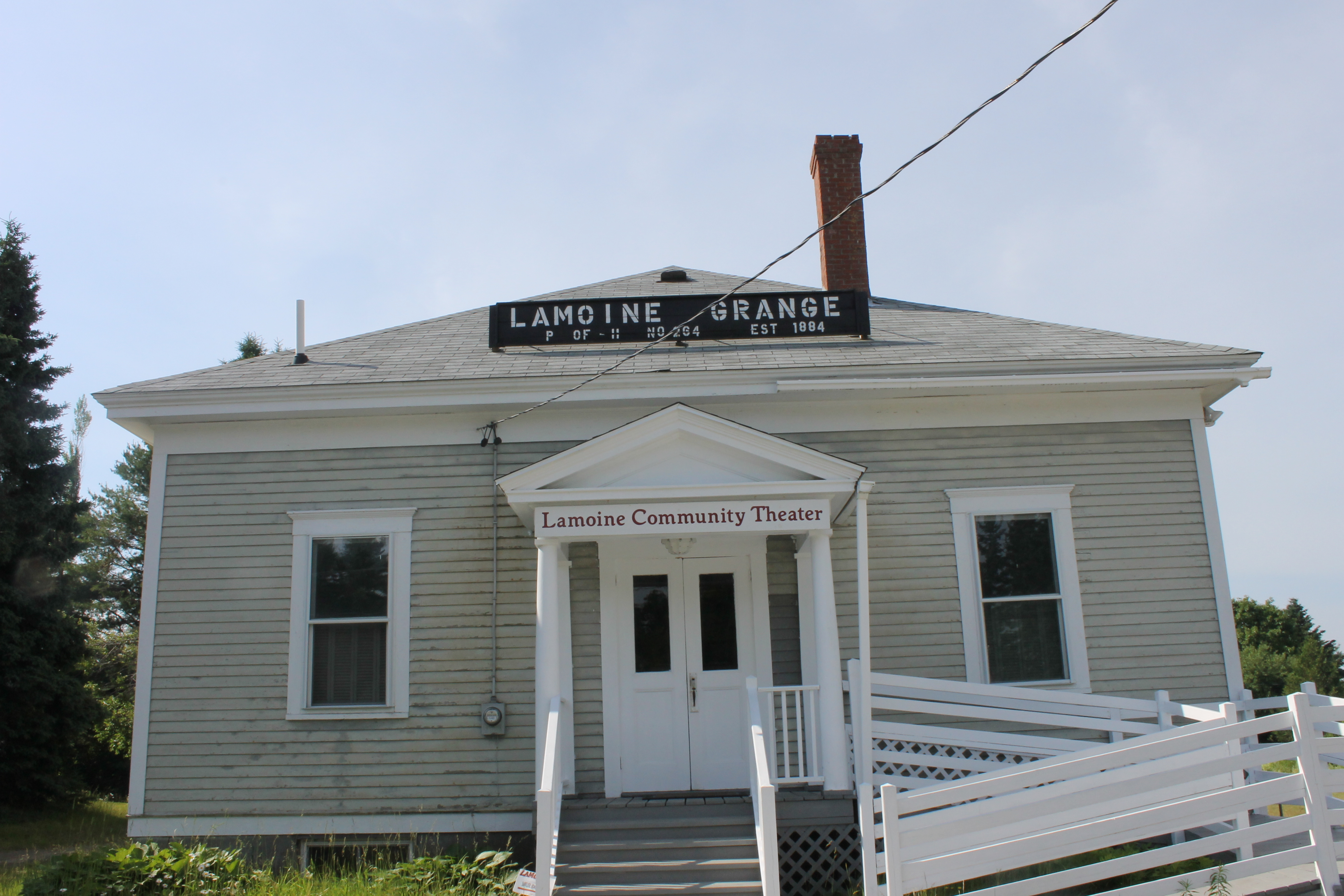 I took photo with Canon camera of Lamoine, Maine, Grange and Community Theater.